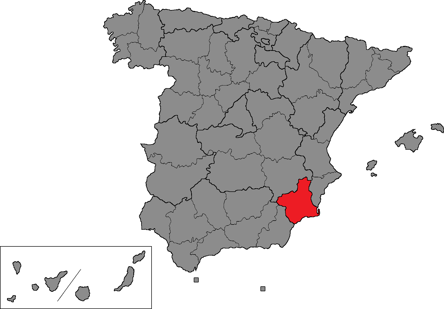 Spanish Congress of Deputies district of Murcia.